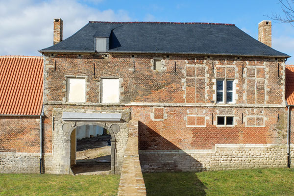 Former gardener’s cottage and south gates, after the 2013-2015 renovation.